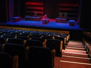 A picture of the auditorium of the abbey theatre nuneaton taken in september 2013